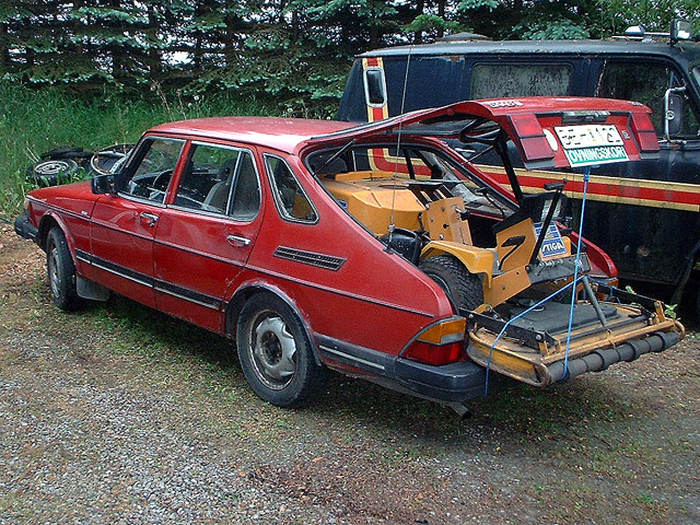 A SAAB 900 combi coupé showing loading capacity. Loaded with a 250 kg Stiga ride-on lawnmover.